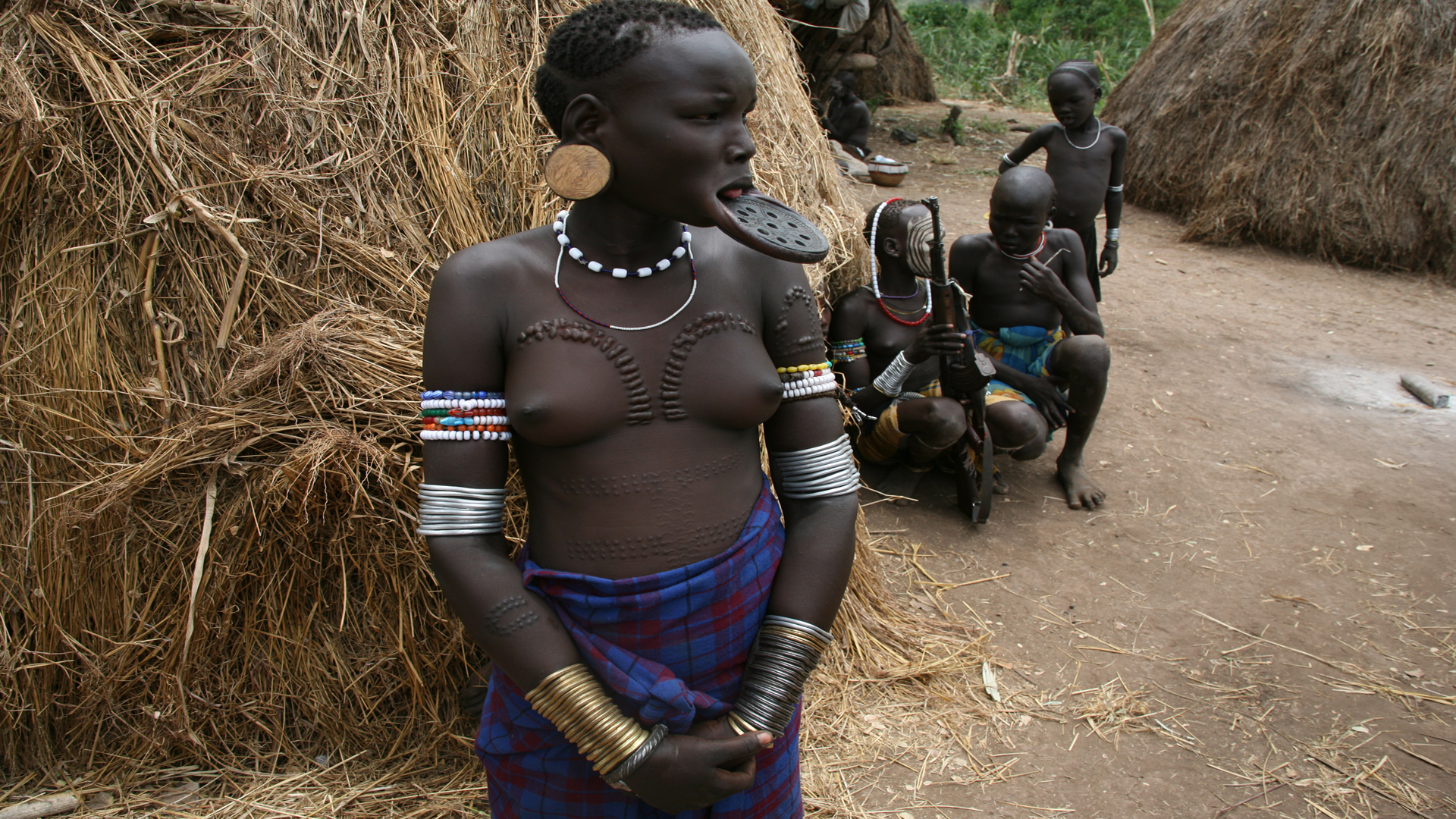 Shots depicting the Lower Valley of the Omo River, UNESCO World Heritage Site, and inhabitants of Southern Ethiopia.